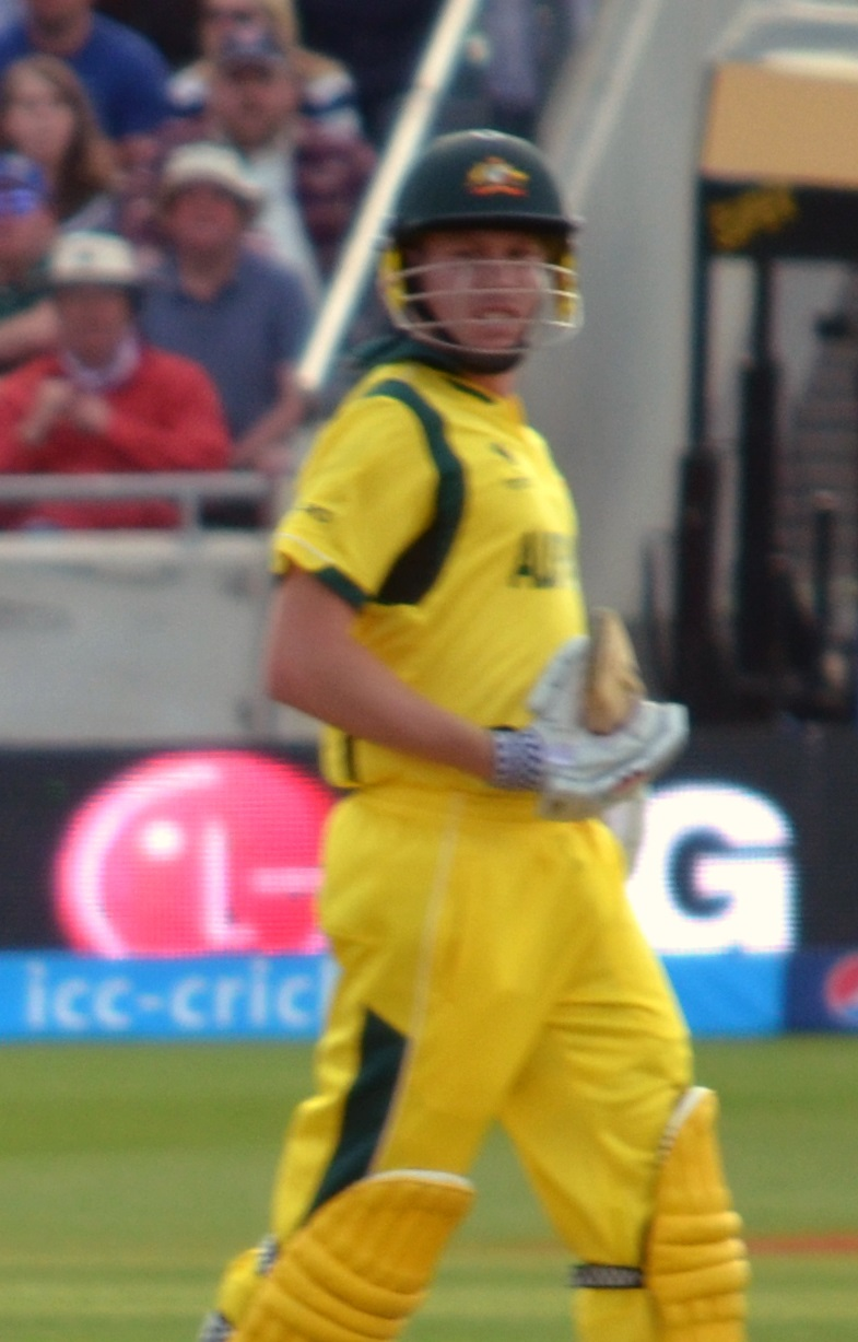 James Faulkner looks on Eoin Morgan takes the catch to dismiss Mitchell Johnson for 8 runs off the bowling of Ravi Bopara during the England v Australia game of the 2013 ICC Champions Trophy at Edgbaston.